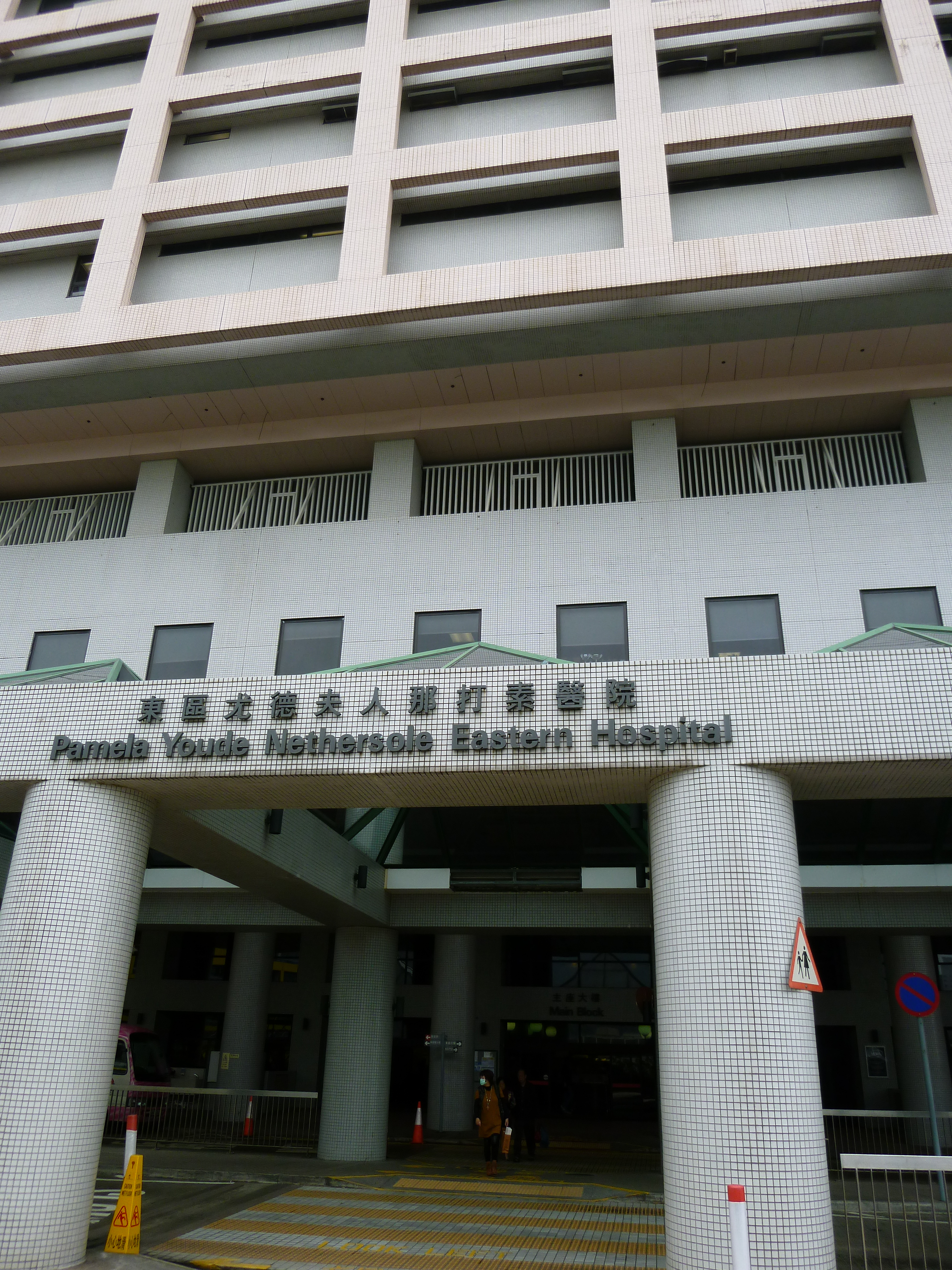 Pamela Youde Nethersole Eastern Hospital (Main Block entrance) (Chai Wan, Hong Kong)